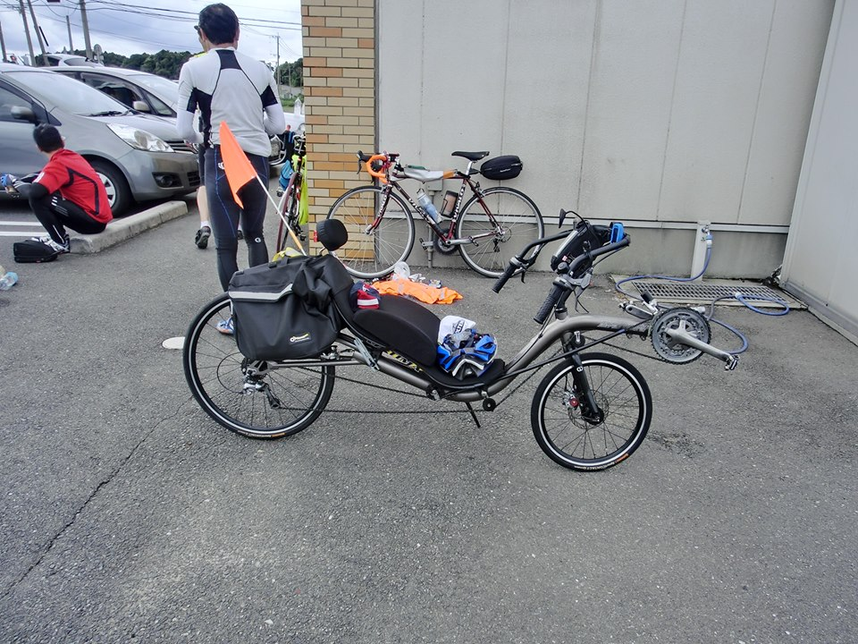 recumbent bicycle